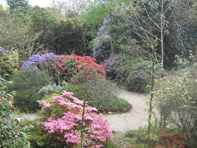 Trewithen Gardens - seen from a viewing platform Around the gardens there are several viewing platforms which give an elevated view from which wonderful views are afforded of the profusion of azaleas, rhododendrons and magnolias for which the gardens are renowned.